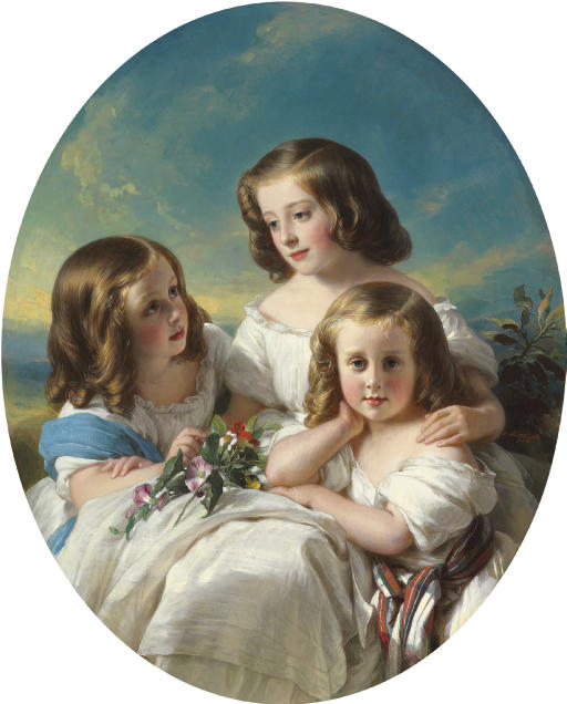 Three girls from the Chateaubourg family